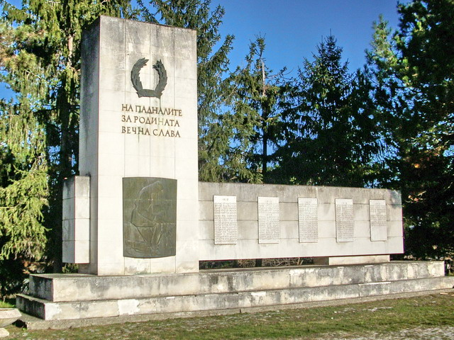 War memorial in village Palamartsa, Bulgaria